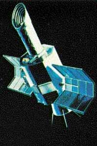 Explorer 57, IUE (International Ultra-Violett Explorer, formerly SAS-D)